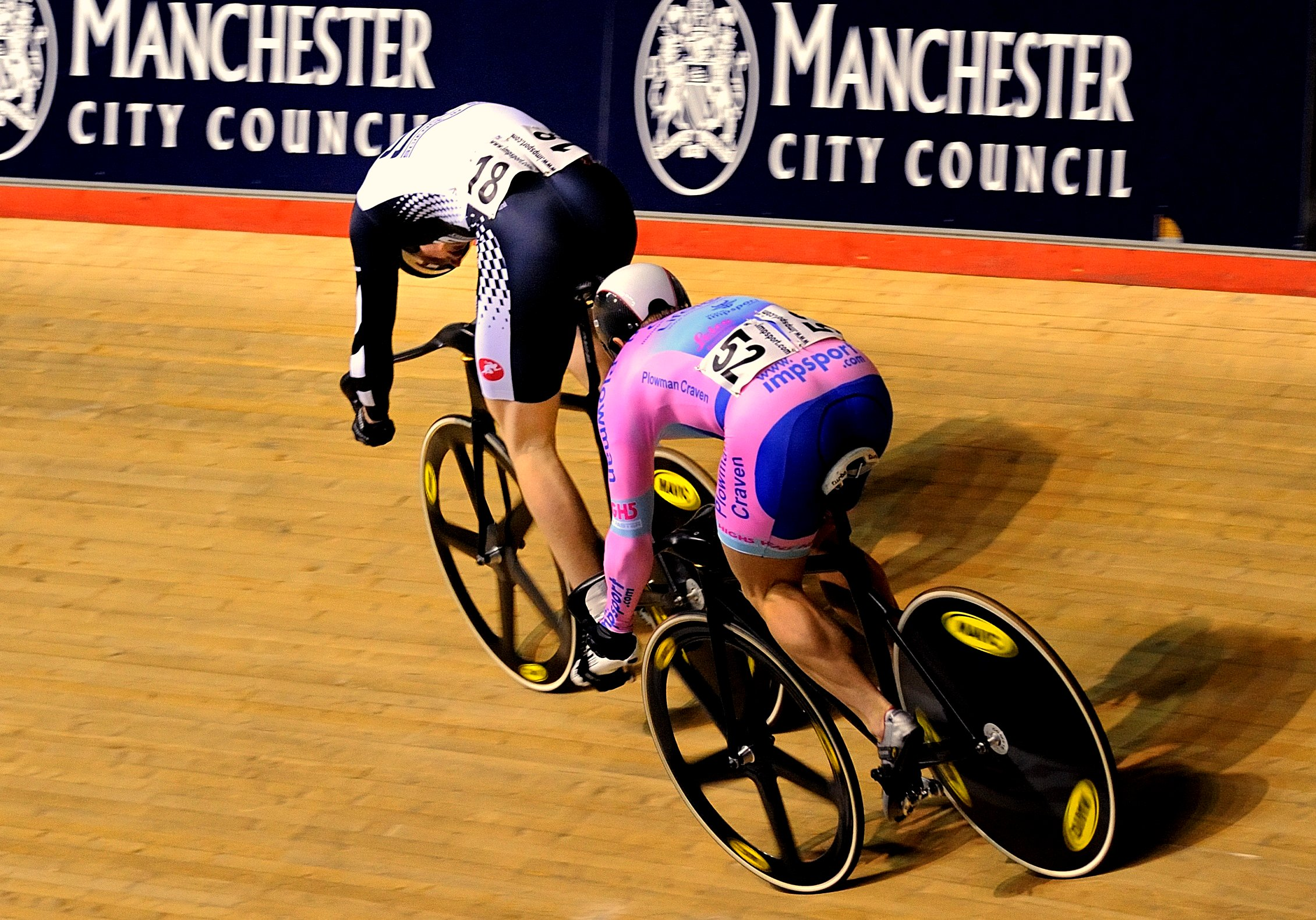 Matthew Crampton (SiS) versus Craig MacLean (Plowman Craven) in the individual sprint at the 2008 British National Track Championships.